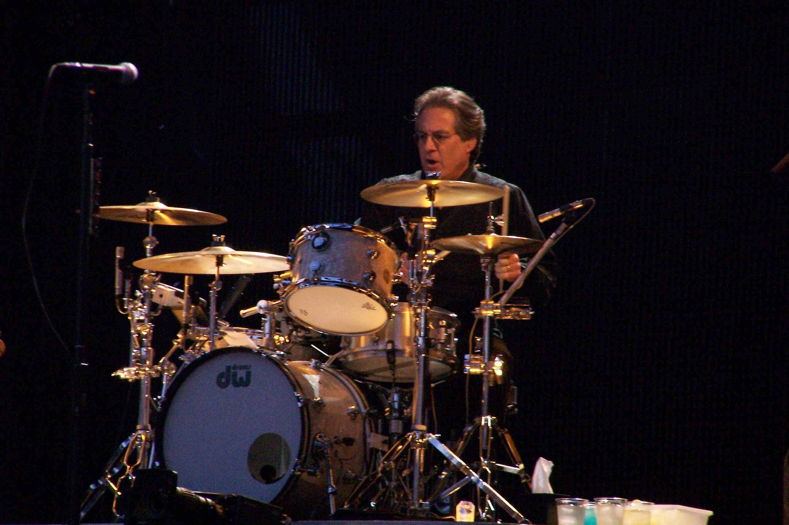 Max Weinberg during the Bruce Springsteen and E Street Band Working on a Dream Tour, Estadio Jose Zorrilla, Valladolid, Spain